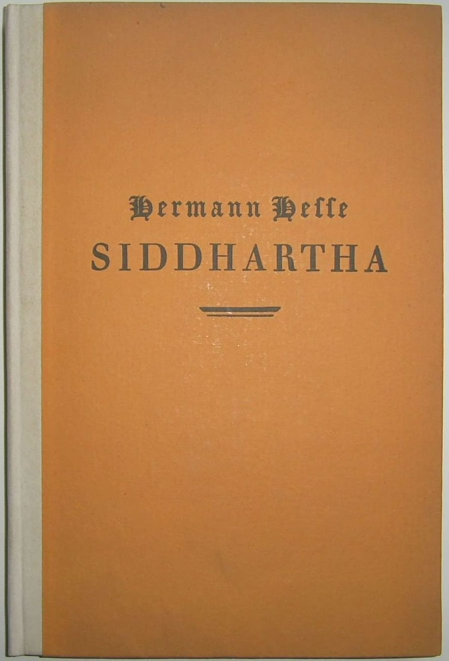 First edition of 1922